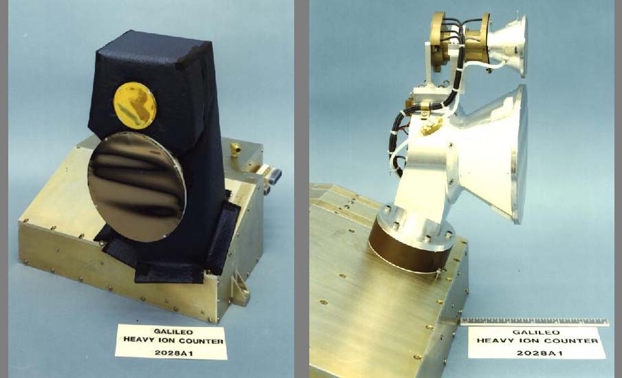 Heavy Ion Counter of the Galileo spacecraft.